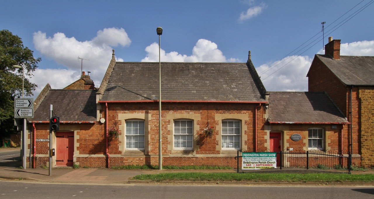 Public library, High Street, Deddington, Oxfordshire, seen from the west. Originally a private house. Converted into a prison and courthouse in the 19th century.